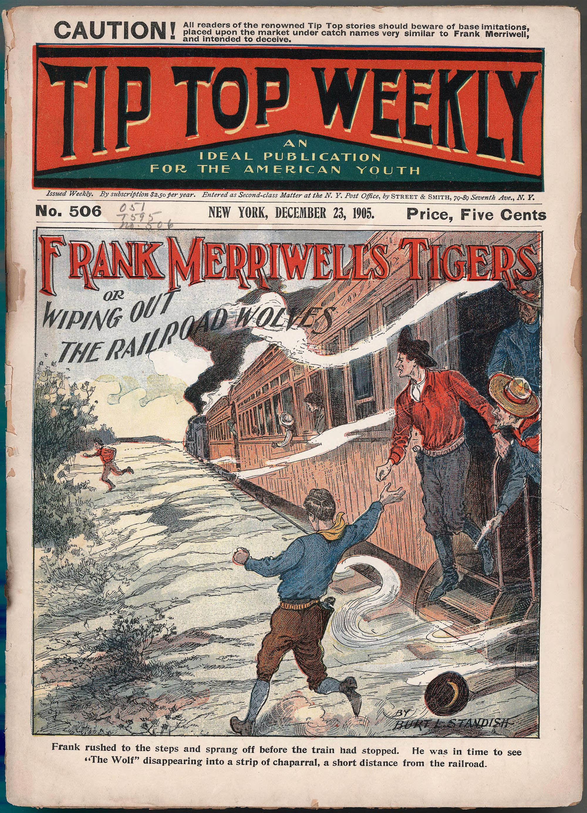 Cover illustration of Frank Merriwell's Tigers, or, Wiping out the Railroad Wolves, 1905 "Frank Merriwell’s Tigers, or, Wiping out the Railroad Wolves", cover illustration for Tip top weekly, no. 506 (23 December 1905). This item was displayed in the Doheny Library Treasure Room reopening exhibit, 2001-2002, as part of the display on the library's American literature collection. Date created: before 1905-12-23 Publisher (of the Digital Version): University of Southern California. Libraries Repository Name: USC Libraries Special Collections Legacy Record ID: exbt-m106 Language: English Artist: Standish, Burt L., 1866-1945 Repository Archival file: exbt_Volume11/exbt-DMLopen-2.tiff Rights: Public domain Filename: exbt-DMLopen-2 Call Number: O51.T595 no. 506 Access Conditions: Send requests to address or e-mail given. Phone (213) 821-2366; fax (213) 740-2343. Coverage date: 1905-12-23 Repository Address: Doheny Memorial Library, Los Angeles, CA 90089-0189 Part of collection: Library Exhibits Collection Format: 1 page Type: images Part of subcollection: Doheny Memorial Library: Heart of the University. Doheny Memorial Library, Fall 2001 - Spring 2002 Subject: Tip top weekly; magazines (periodicals)